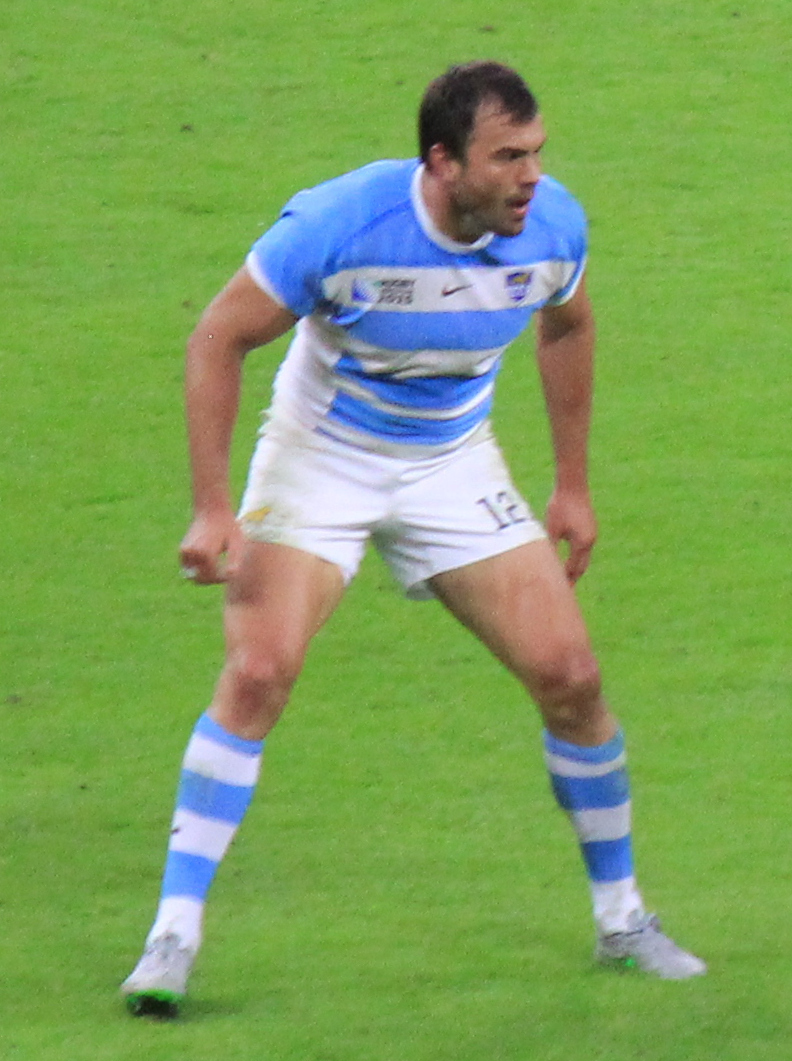 15-09 RWC New Zealand vs Argentina 107